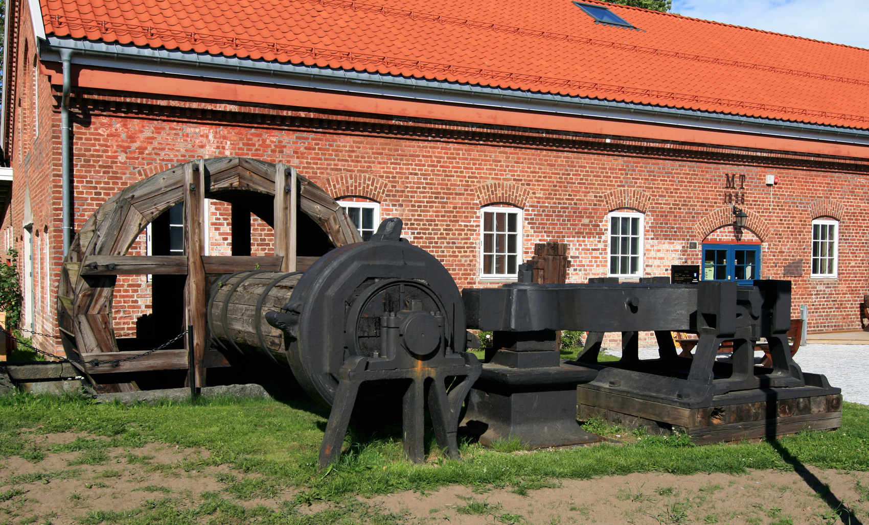 Water-run forging hammer, Larvik Museum, Norway.